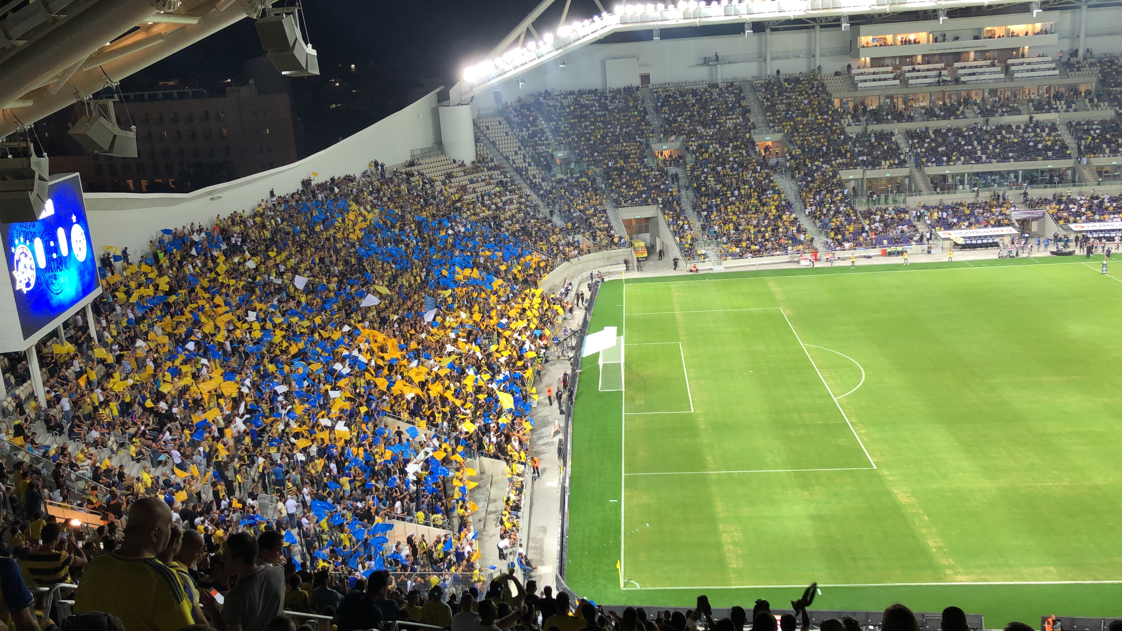 Bloomfield Stadium